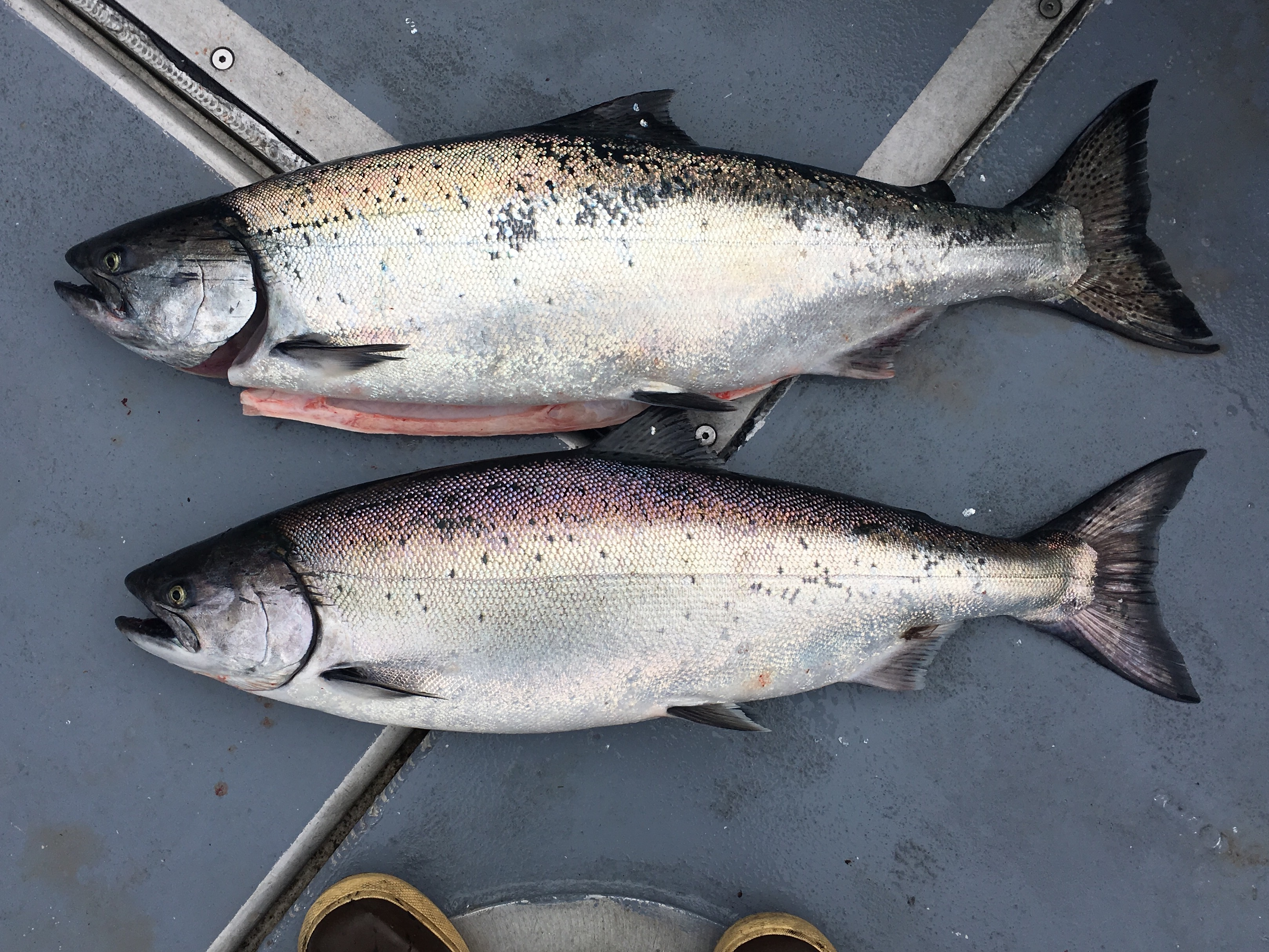 king salmon by Nick Longrich